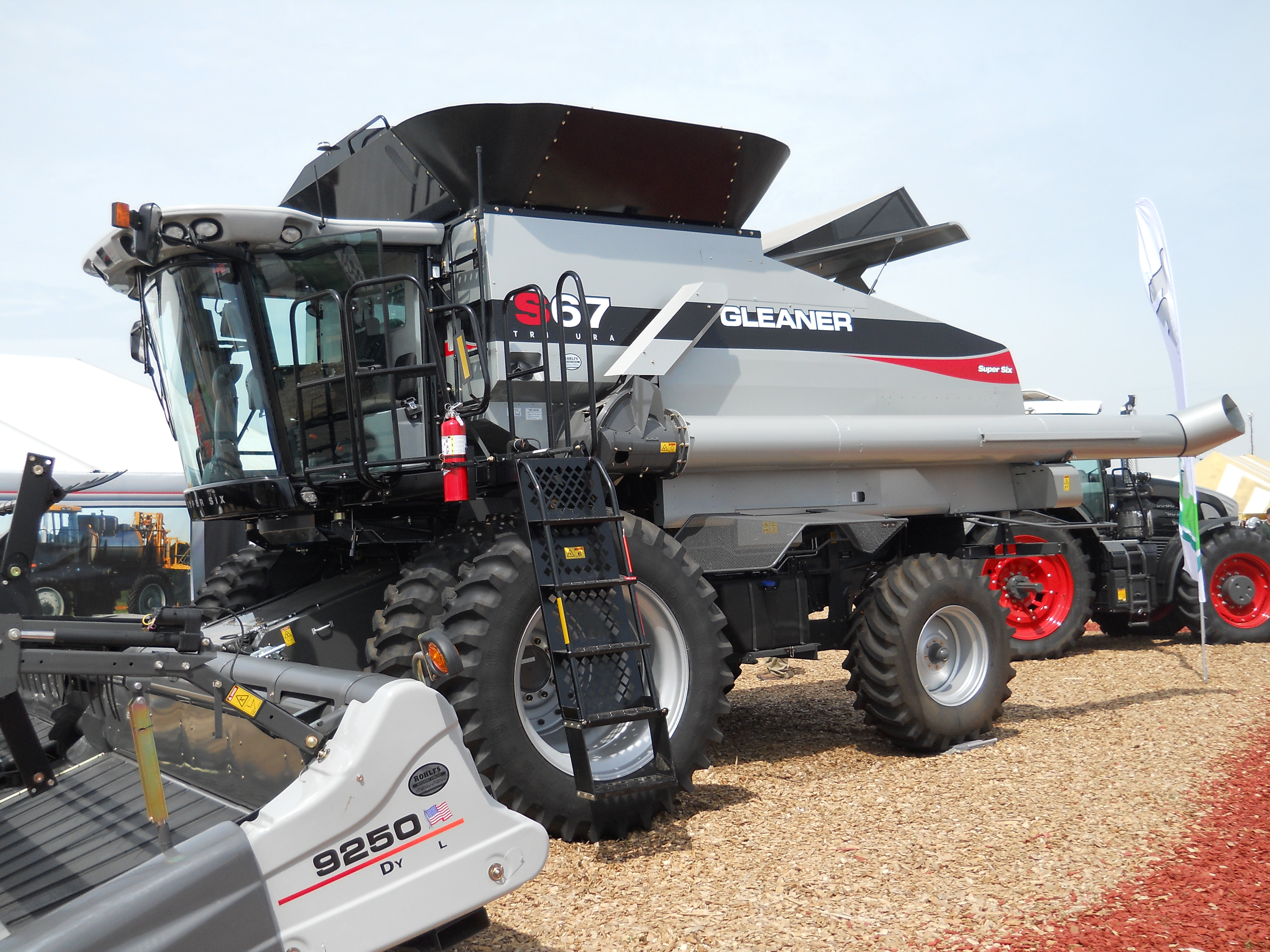 2011 AGCO Gleaner S67 Tritura commbine harvester at 2011 Farm Progress Show